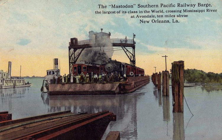 Postcard depiction of the Southern Pacific Railroad's barge "Mastodon", which was used to bring trains and passengers across the Mississippi River north of New Orleans. The card shows the entire train with passengers standing on the barge as it crosses the Mississippi.